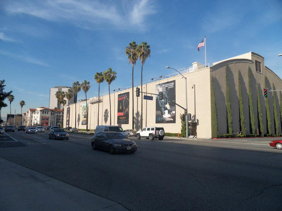 Warner Bros studios in Burbank, CA seen from the street